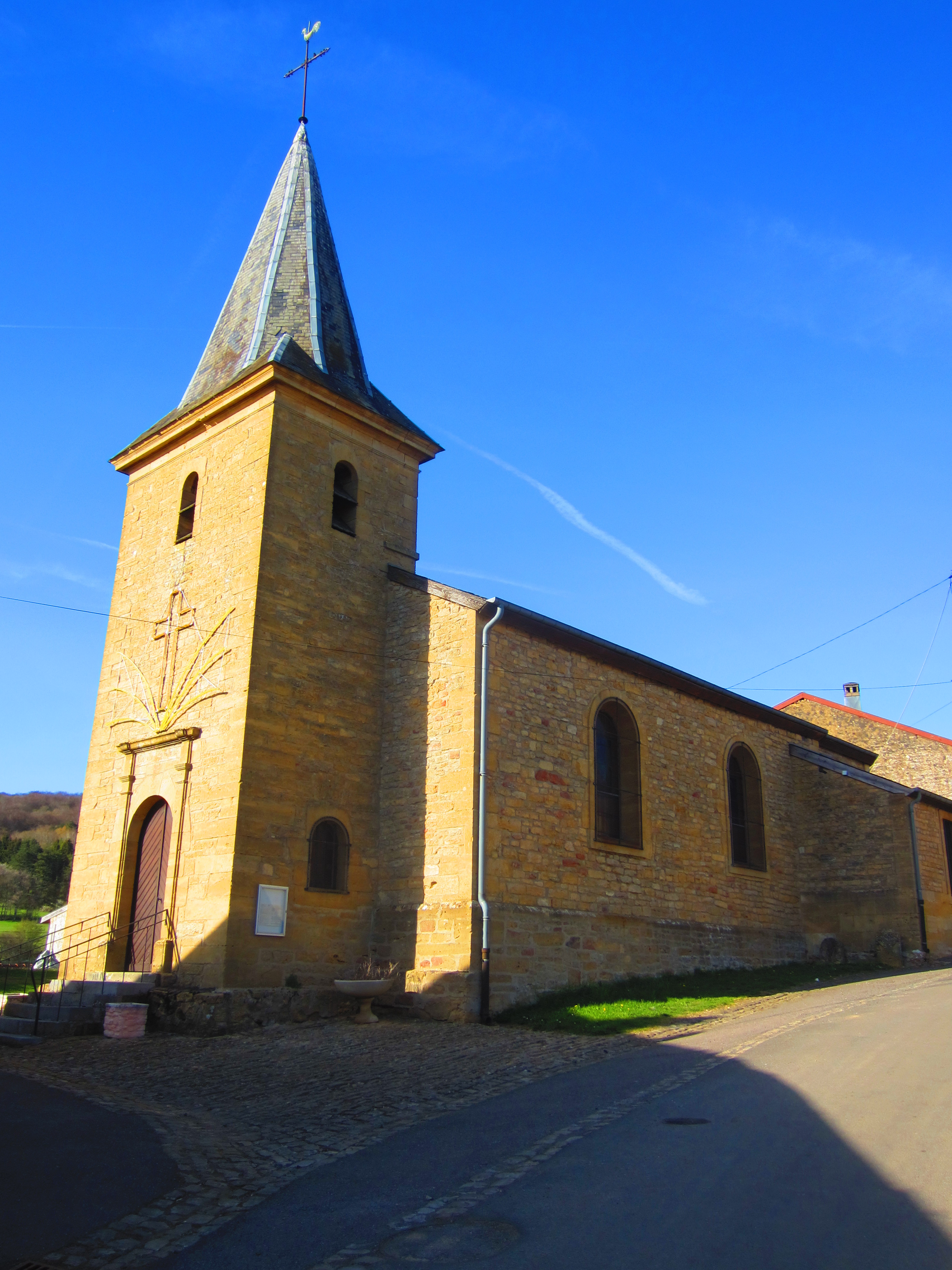 Epiez Chiers church